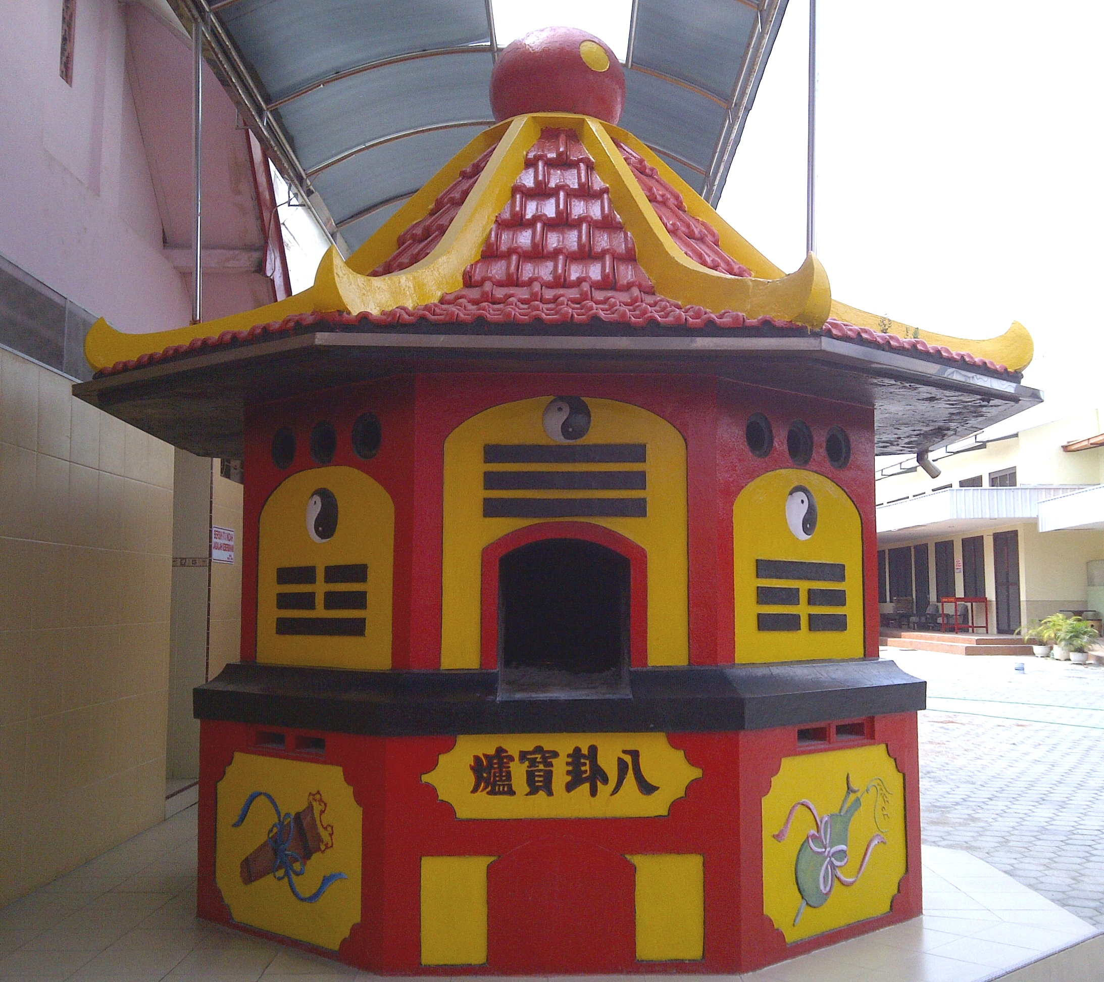 Stove building for burning paper at Chinese Temple of Tik Liong Tian, Rogojampi, Indonesia